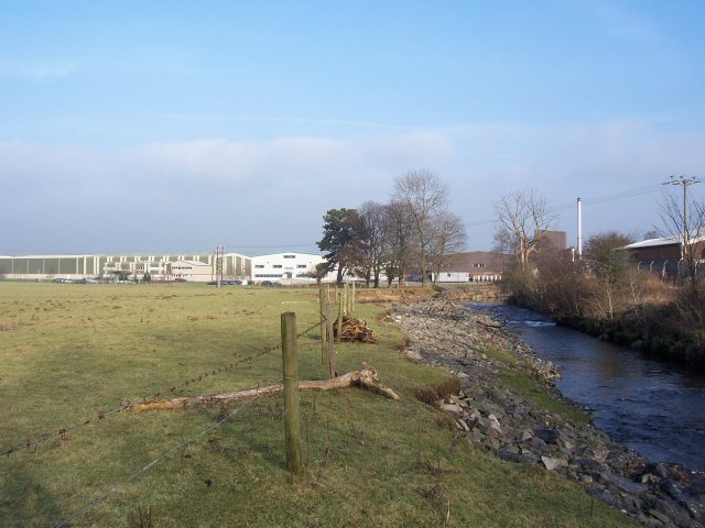 Industrial estate north of Mintsfeet.